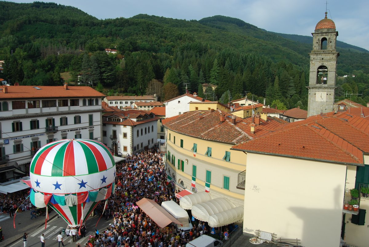 Pallone di Santa Celestina 2011